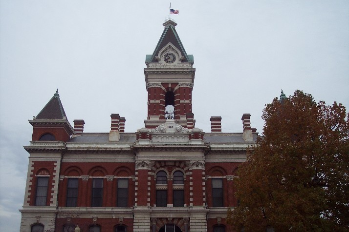 Taken by Kurt Weber (User:Kmweber) on November 5, 2006